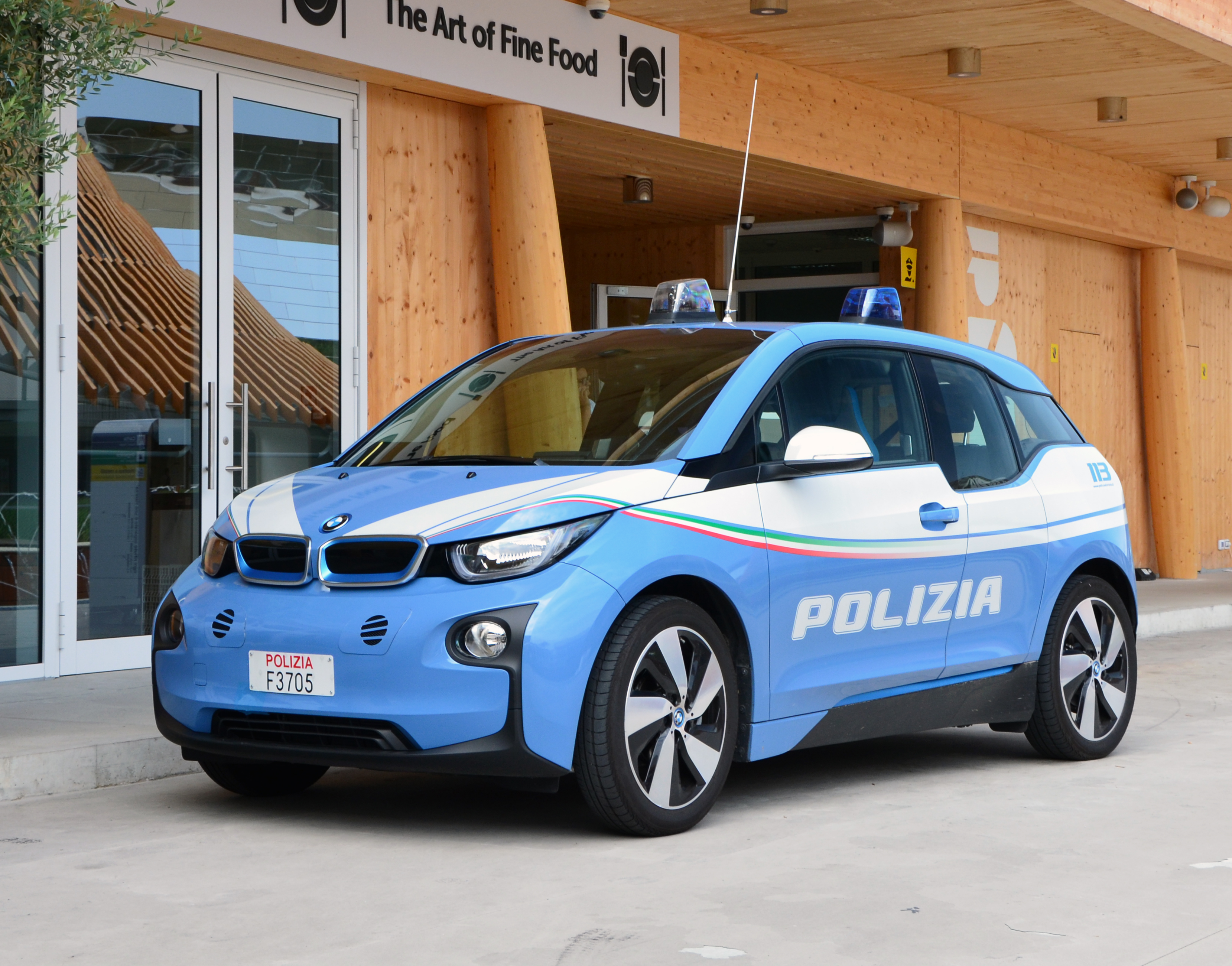 BMW i3 of the italian police, at the Expo 2015 of Milan (Italy).